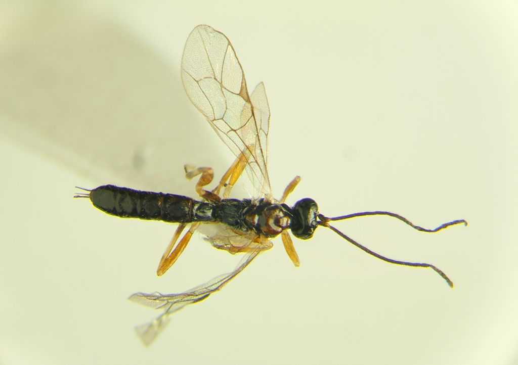 Adult Zatypota percontatoria (RMNH.INS.593327), specimen.